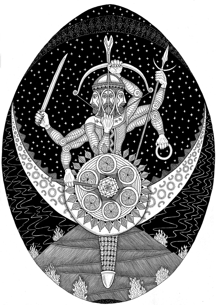 This is the sun-god Dadzbog, the son of Svarog, the blacksmith god and lord of the heavens.